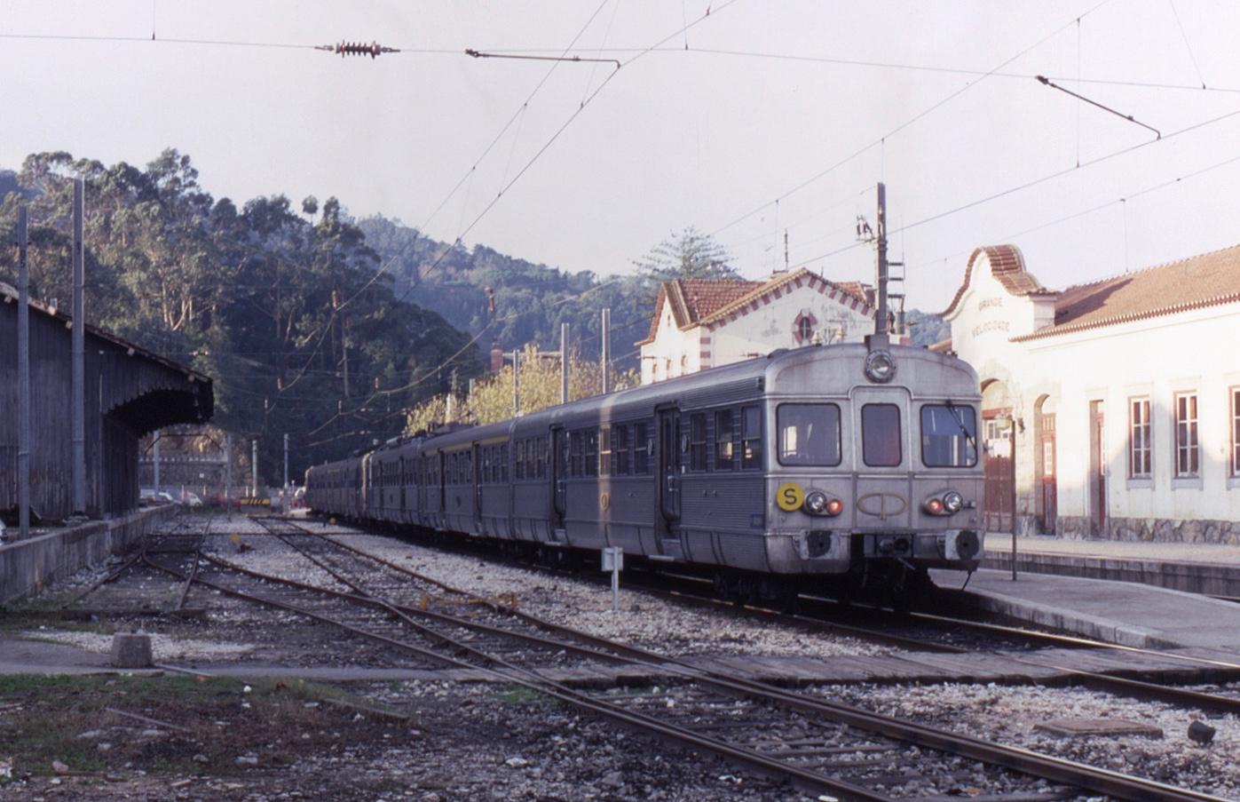 Services on the electrified branch from Lisboa to Sintra were operated by 3-car EMUs build by Sorefame. On 30 November 1990, 2006 and 2061 form train 18562, 09:19 Sintra to Lisboa Rossio.